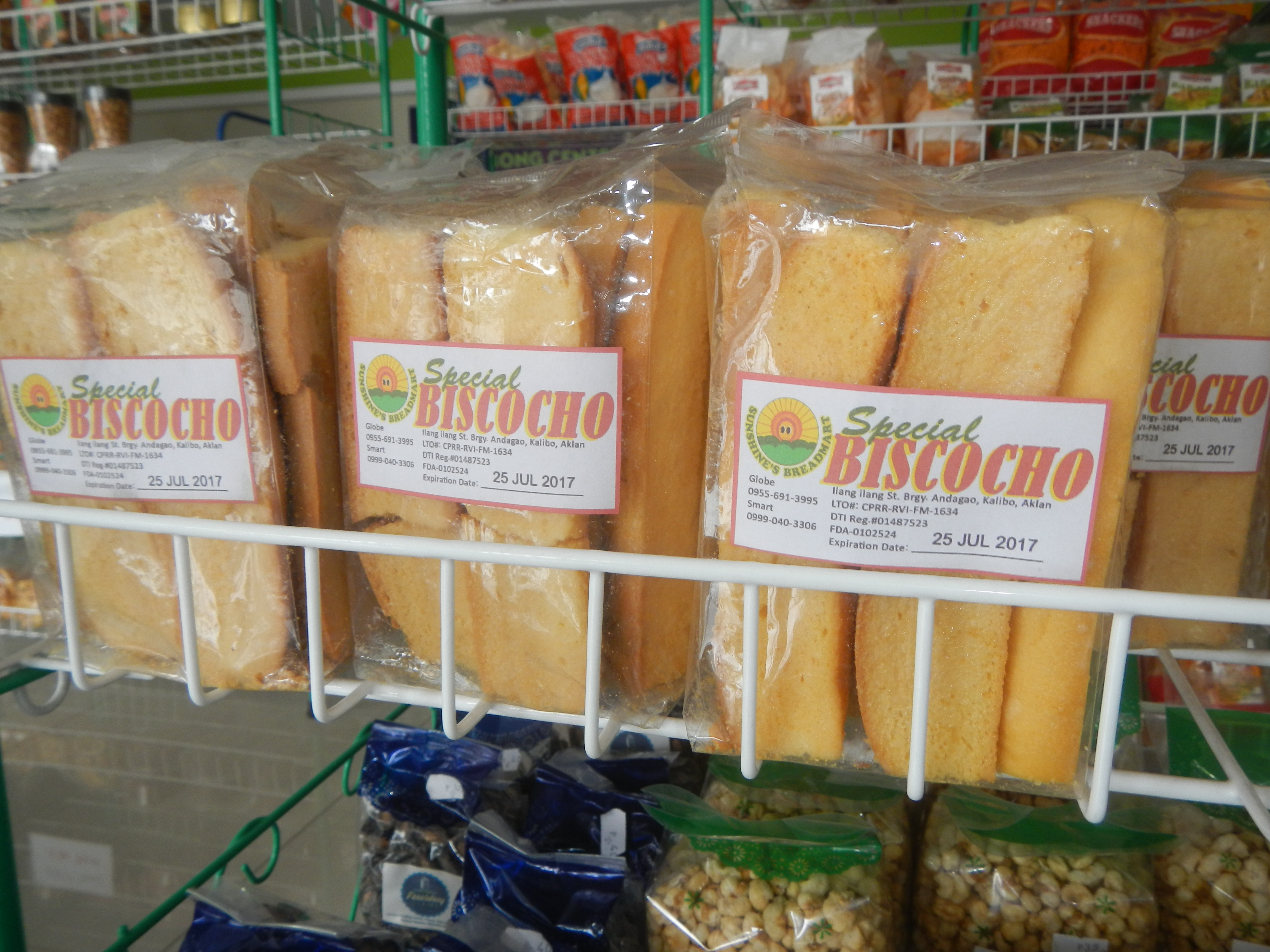 Cuisine foods delicacies of the Philippines; Belekoy Bucayo Bukayo Jacobina Square biscuits Minasa Dragon fruit wine Mango Lipote Bugnay Red Wine taken at Pagala, Baliuag, Bulacan 14°58'11"N 120°53'41"E (Note: Judge Florentino Floro, the owner, to repeat, Donor Florentino Floro of all these photos hereby donate gratuitously, freely and unconditionally all these photos to and for Wikimedia Commons, exclusively, for public use of the public domain, and again without any condition whatsoever).